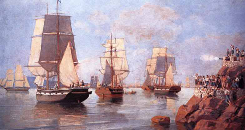 Triumphant welcome to Admiral Andreas Miaoulis in Hydra.